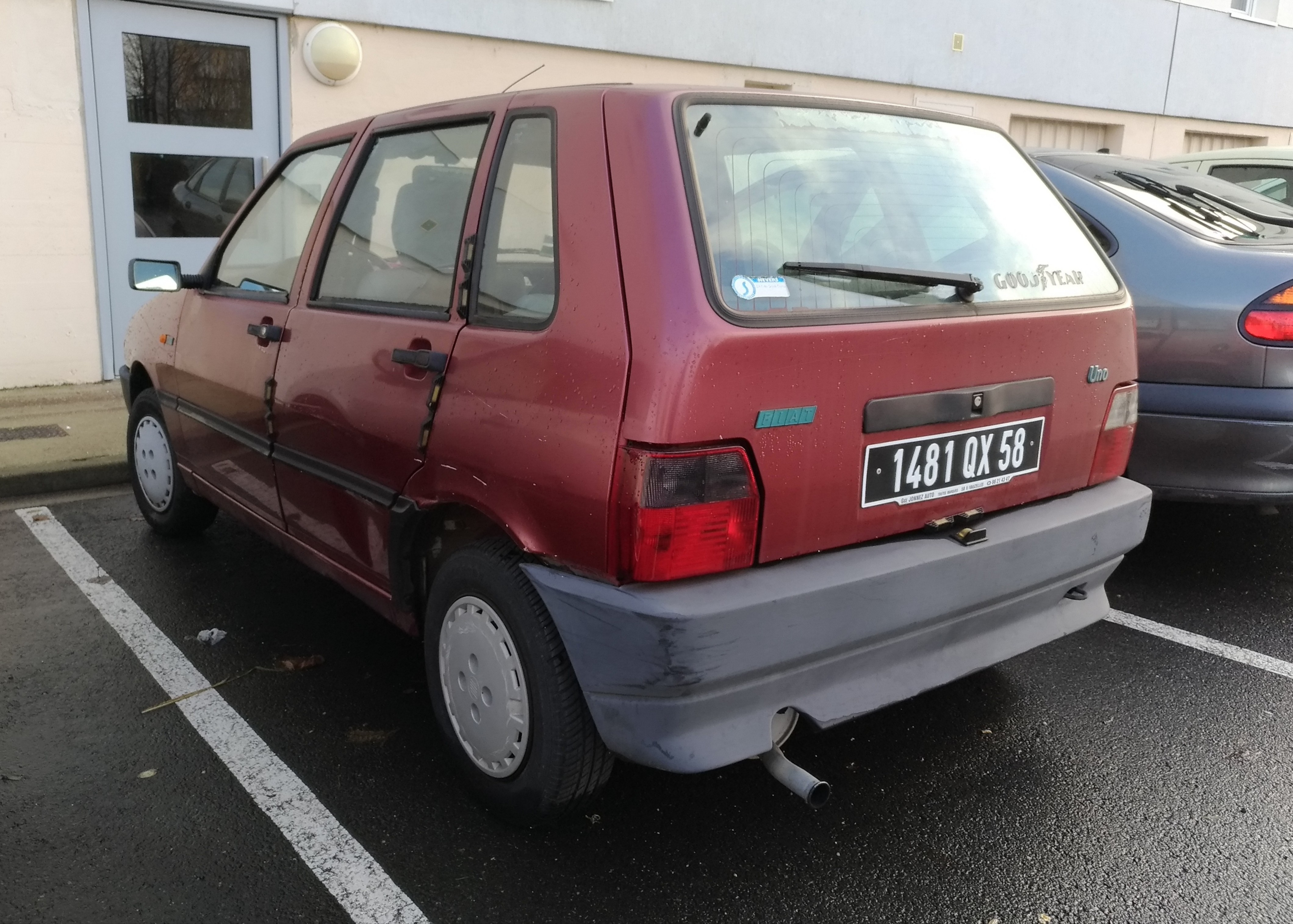 Fiat Uno